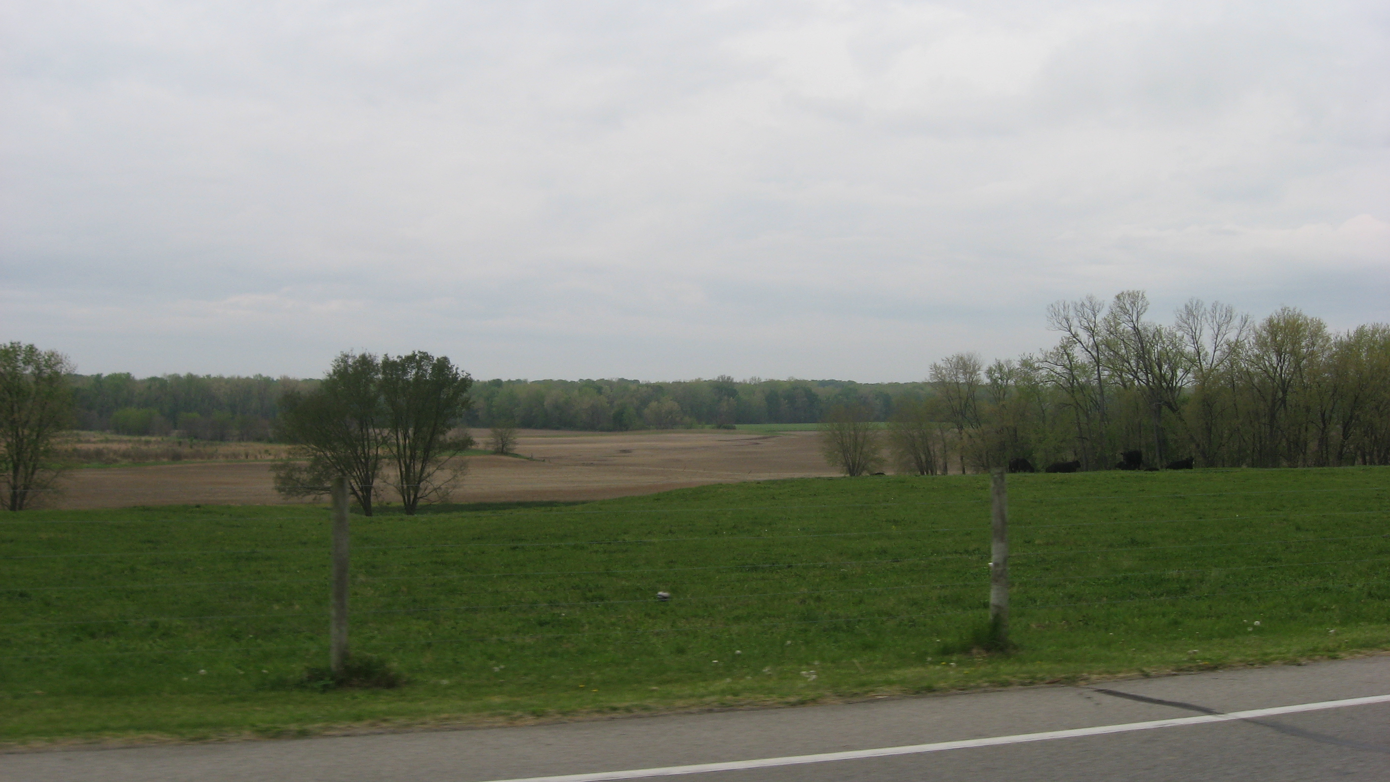 Fields along the Wabash River in Wabash Township, Tippecanoe County, Indiana, United States, about a mile west of the park that commemorates Fort Ouiatenon.